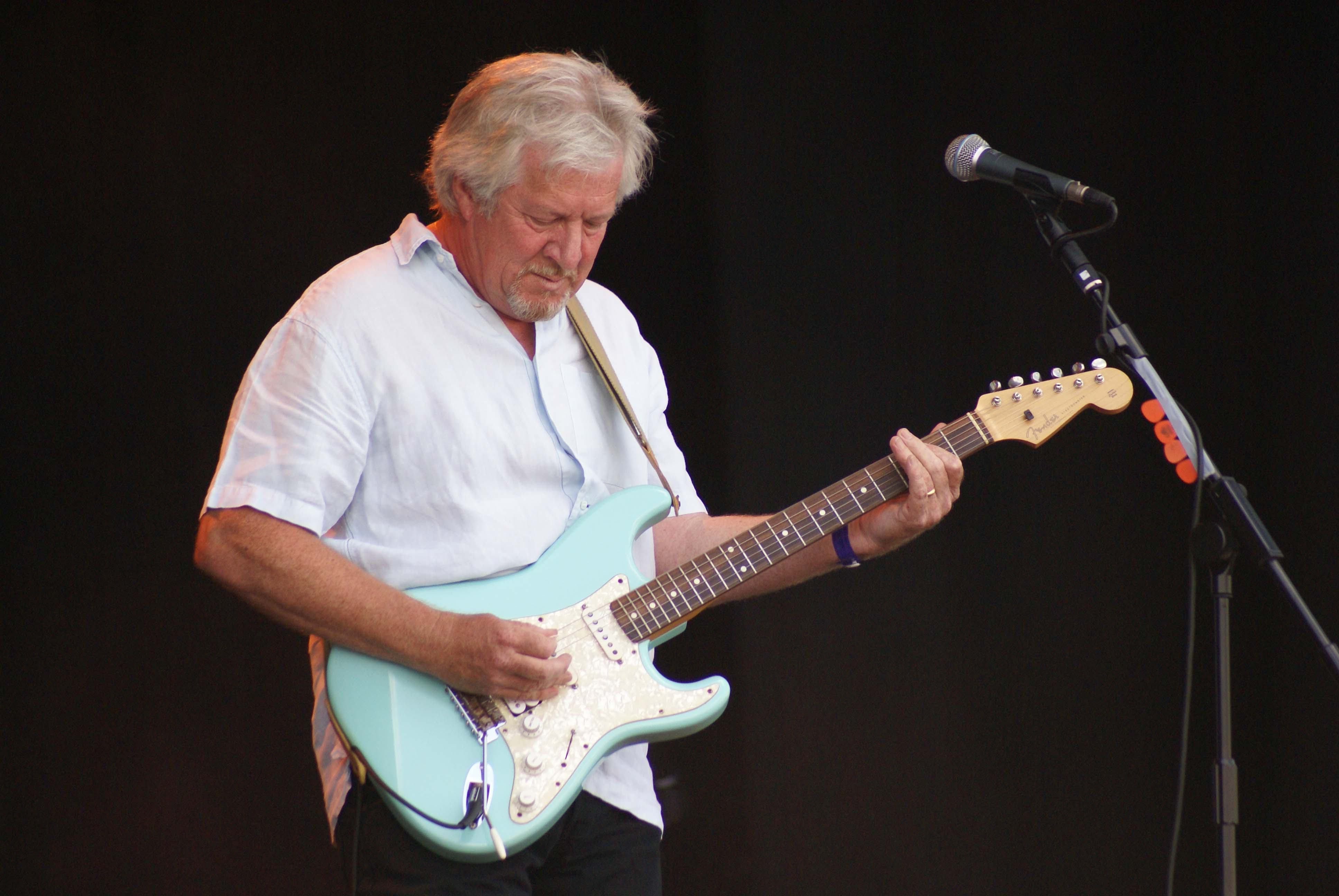 Tim Renwick The legendary ex-Pink Floyd sideman with the Bucket Boys, performing at Cropredy Festival, 2007